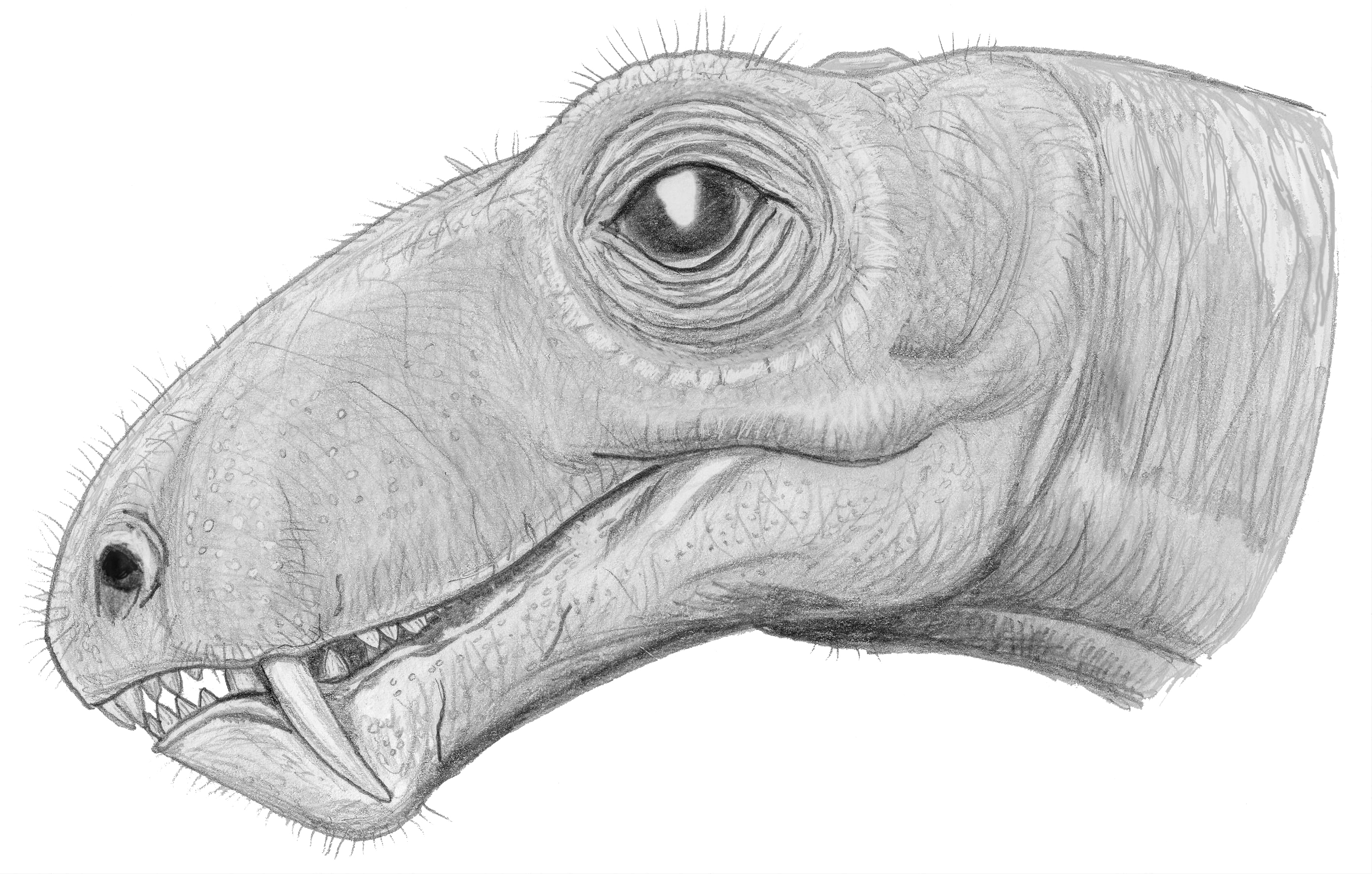 Head of Biarmosuchus tagax from Middle Permian of Arkhangelsk region